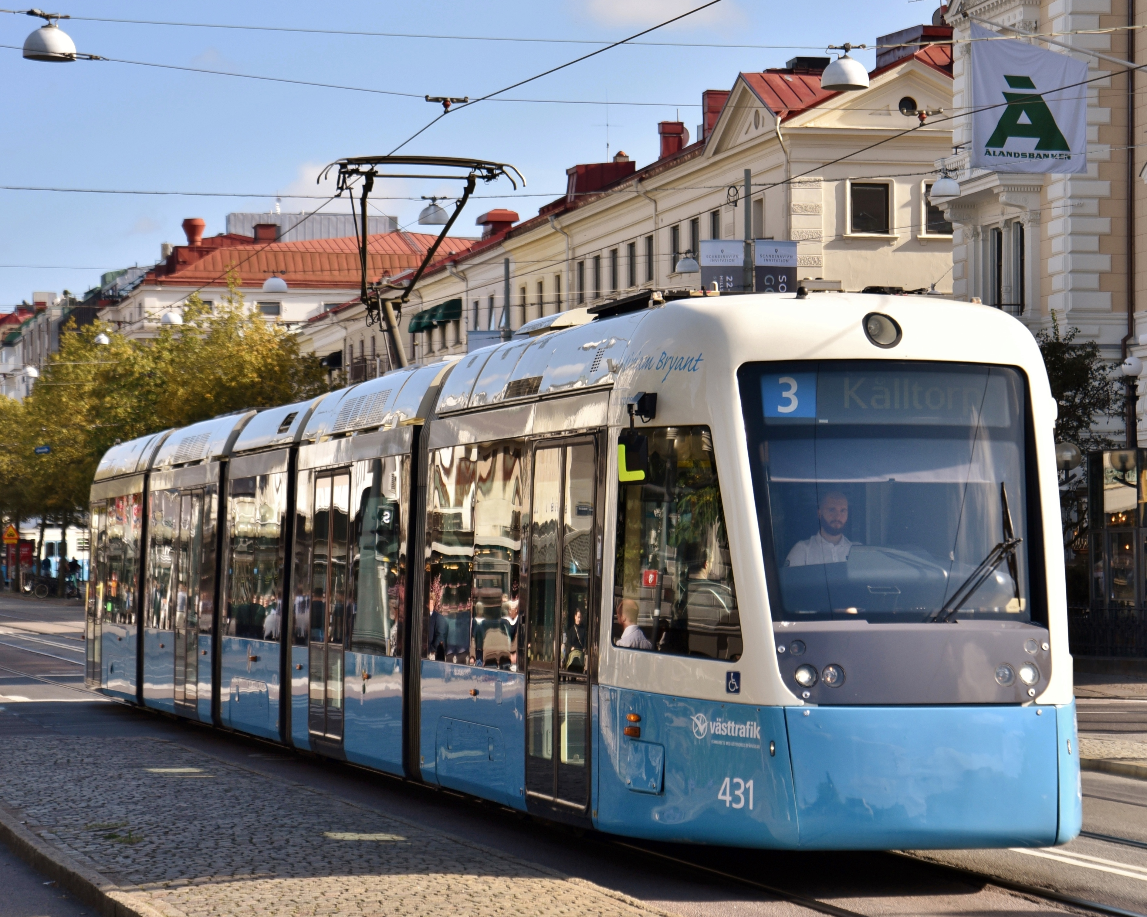 Göteborgs Spårvägar tram no. 431 operating a line 3 service in Kungsportsavenyn, Gothenburg, Sweden